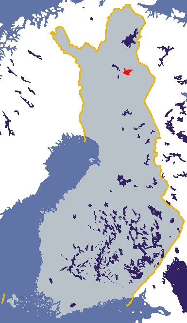 Location of the artificial lake Lokka in Finland